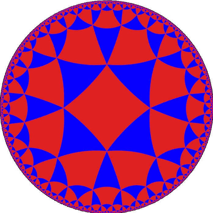 KaleidoTile, Topology and Geometry Software, Jeff Weeks Hyperbolic plane regular tiling: t0(4 3 3)